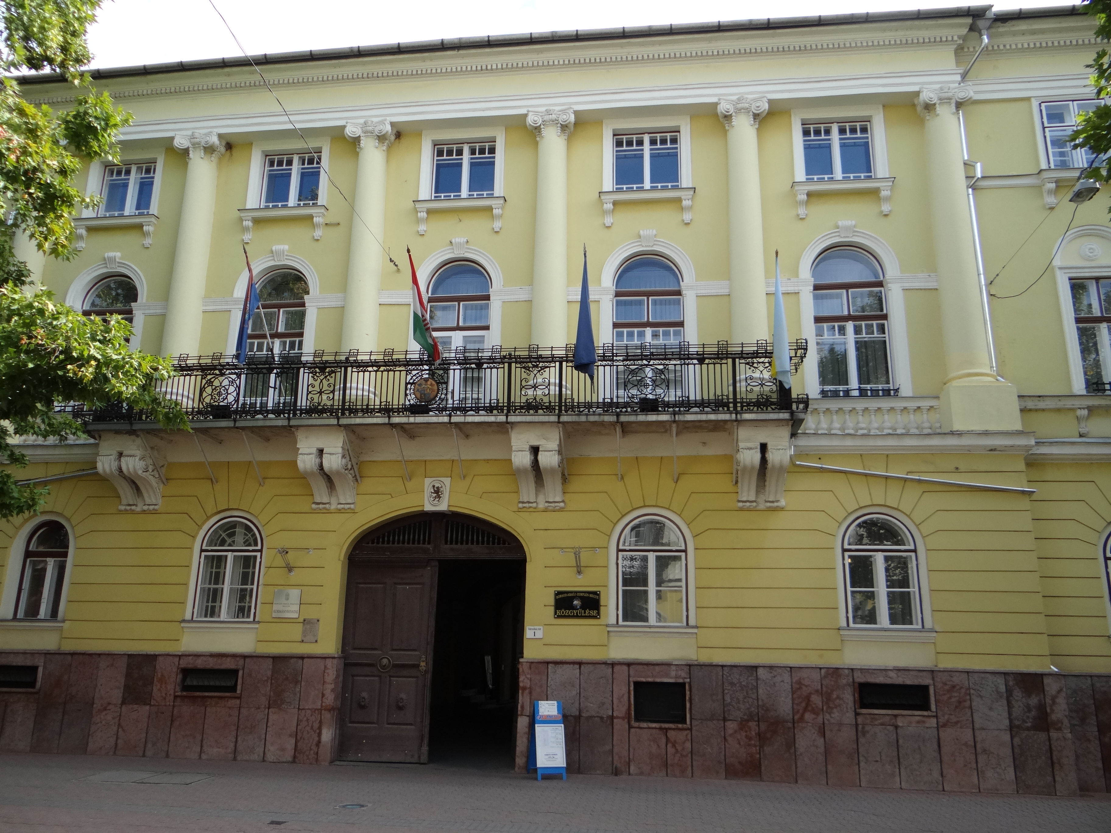 County Hall, 1 Városház Square, Miskolc, Hungary This is a photo of a monument in Hungary. Identifier: 90401